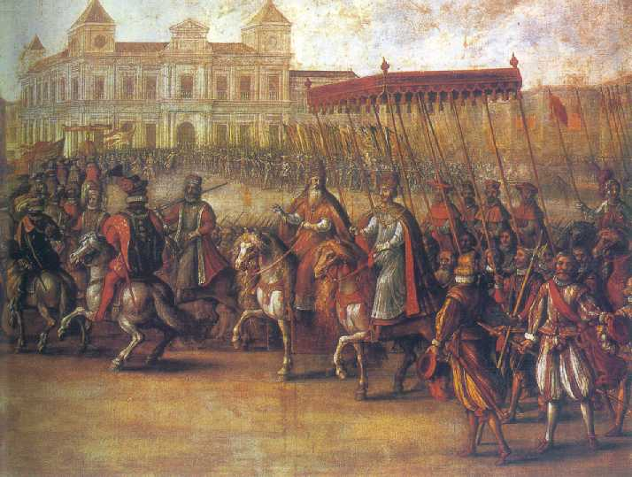 Entrance of Charles V into Bologna for his Coronation (1530)